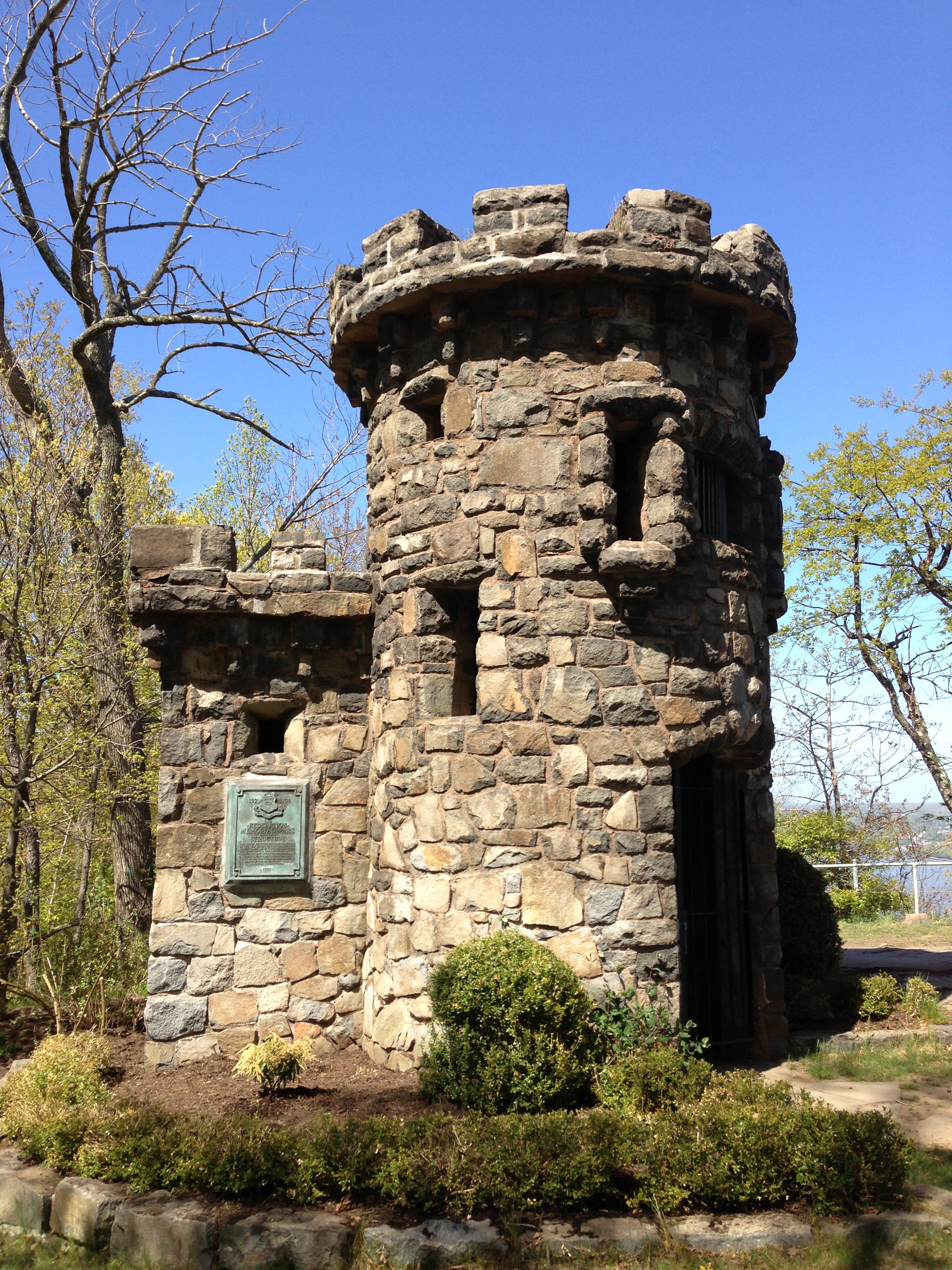 View from the southwest of the Women's Federation Monument in Palisades Interstate Park on May 5th 2013